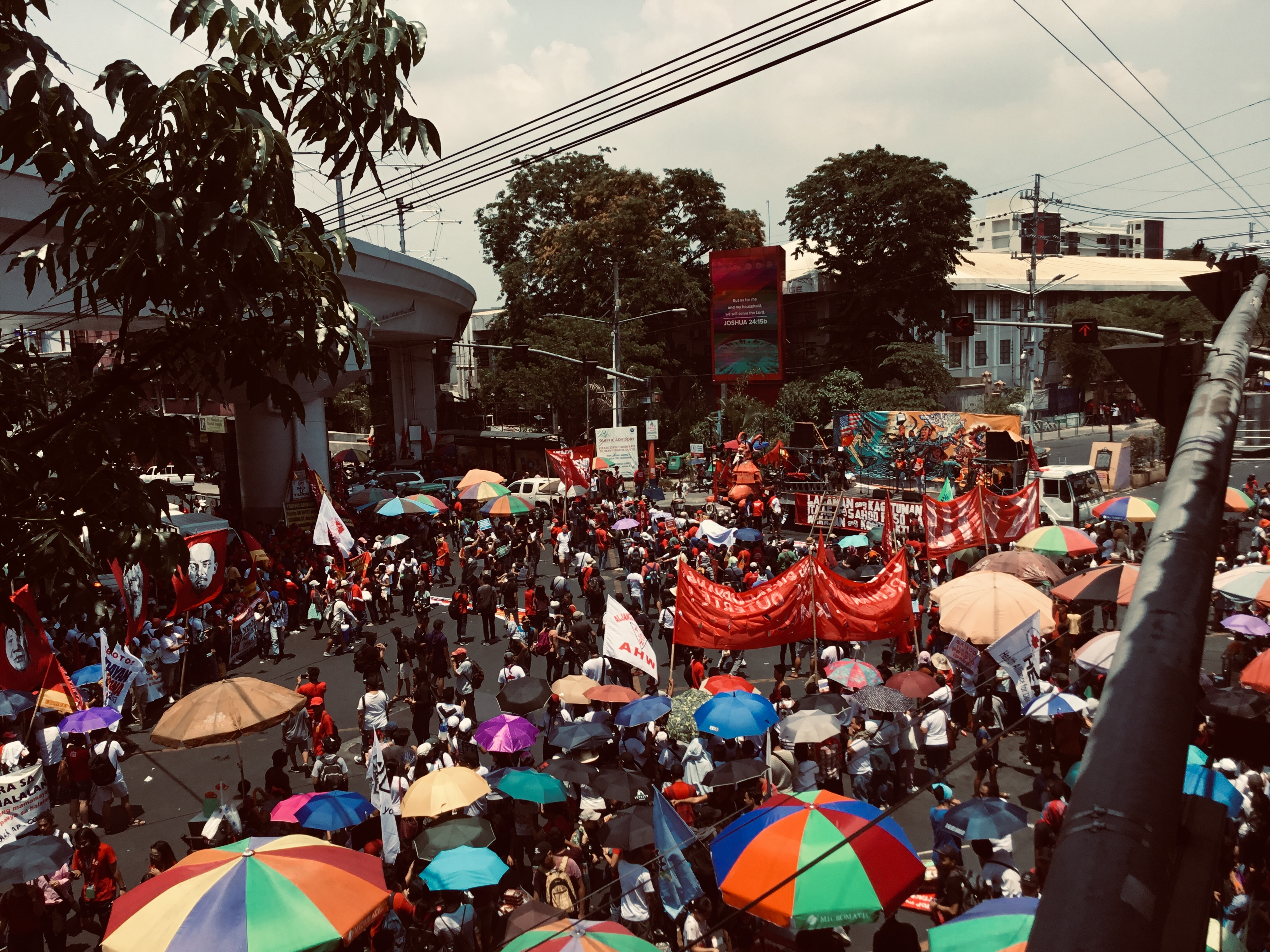 Labor Day May 1 2019 Protest Manila